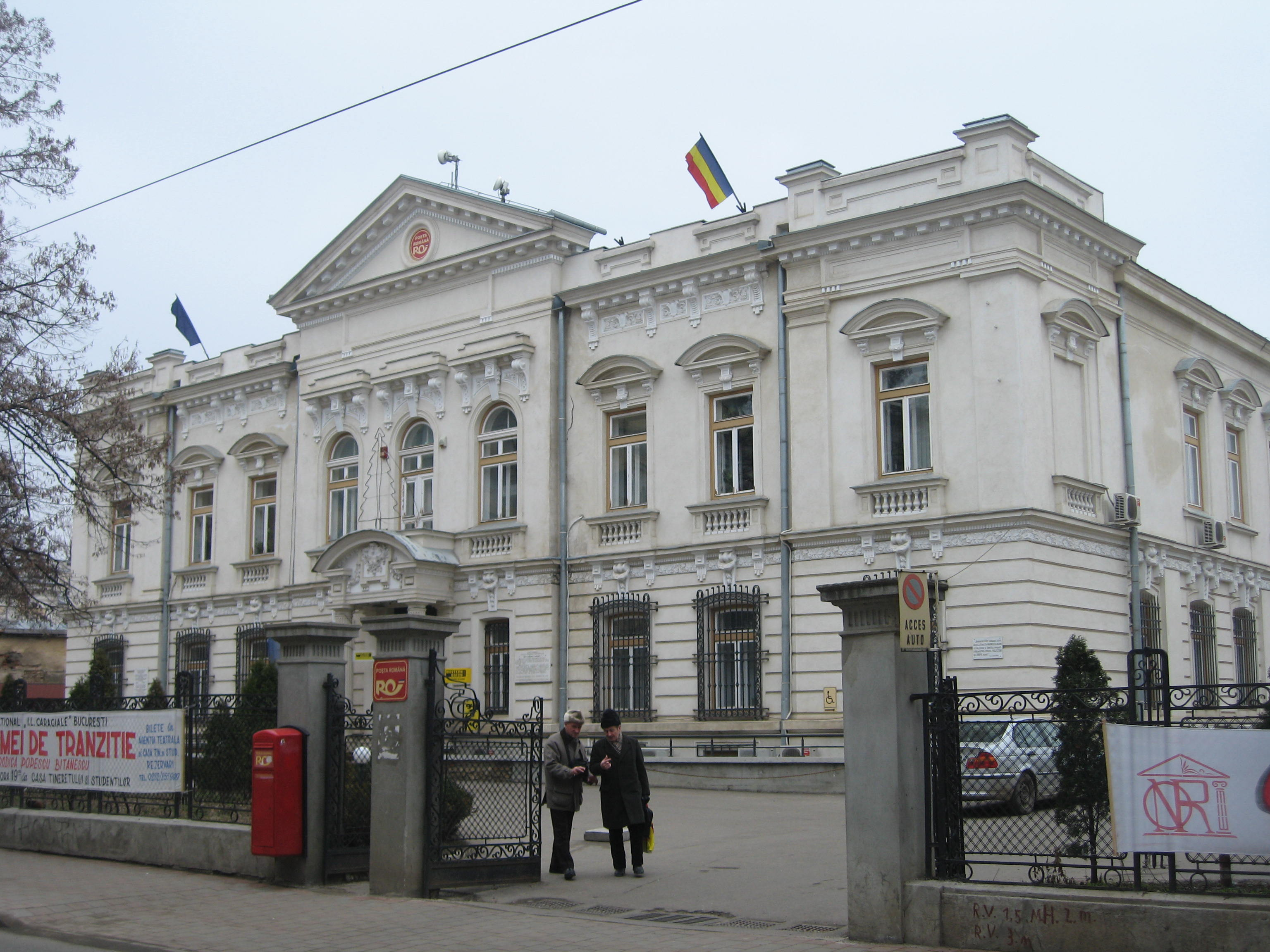 Bals-Sturza House in Iași, Romania